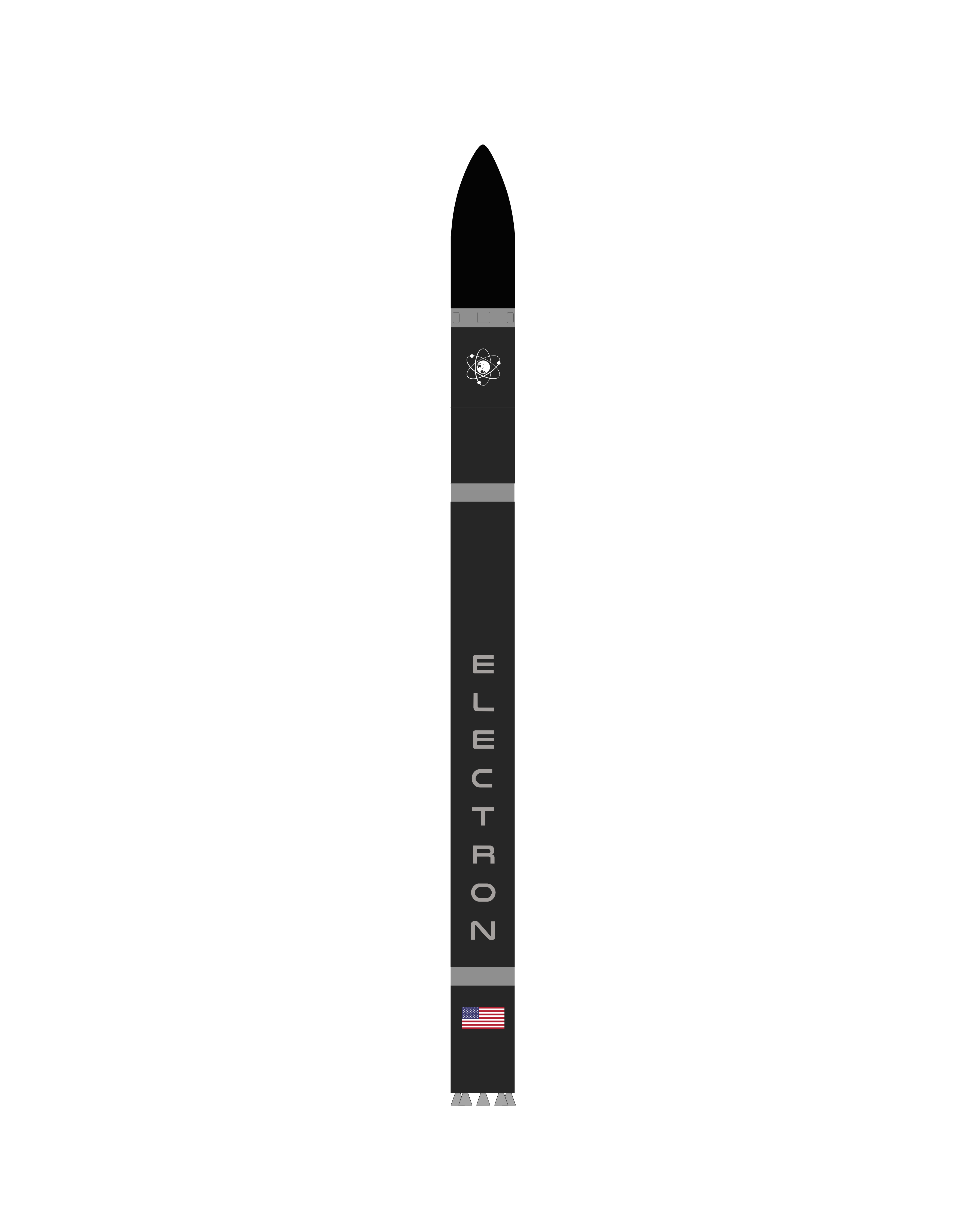 2-D matte diagram of the Electron rocket, made by Rocket Labs, in the style of other Wikipedia diagrams